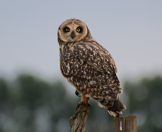 Short-eared Owl (Asio flammeus) at Piraju, Brazil. 15 January 2014